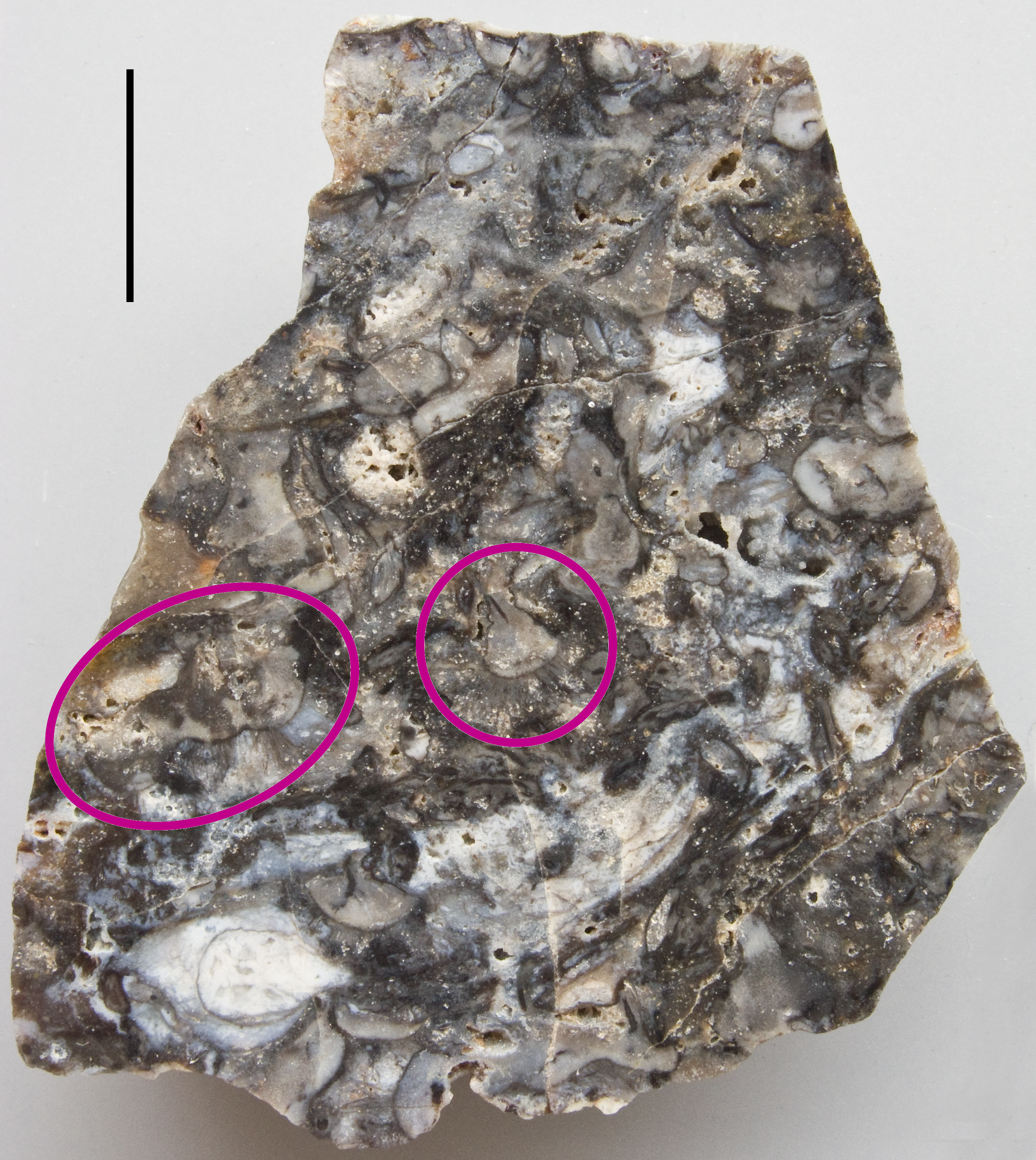 Surface view of a polished piece of Rhynie Chert showing many corms/tubers of Horneophyton. Marked examples: centre – single corm with rhizoids; left – linked corms with rhizoids. Scale bar is 1 cm. A larger scale view of the centre corm is at File:Rhynie chert with Horneophyton 2.jpg. With thanks to H.-J. Weiss who gave me the sample of Rhynie Chert.